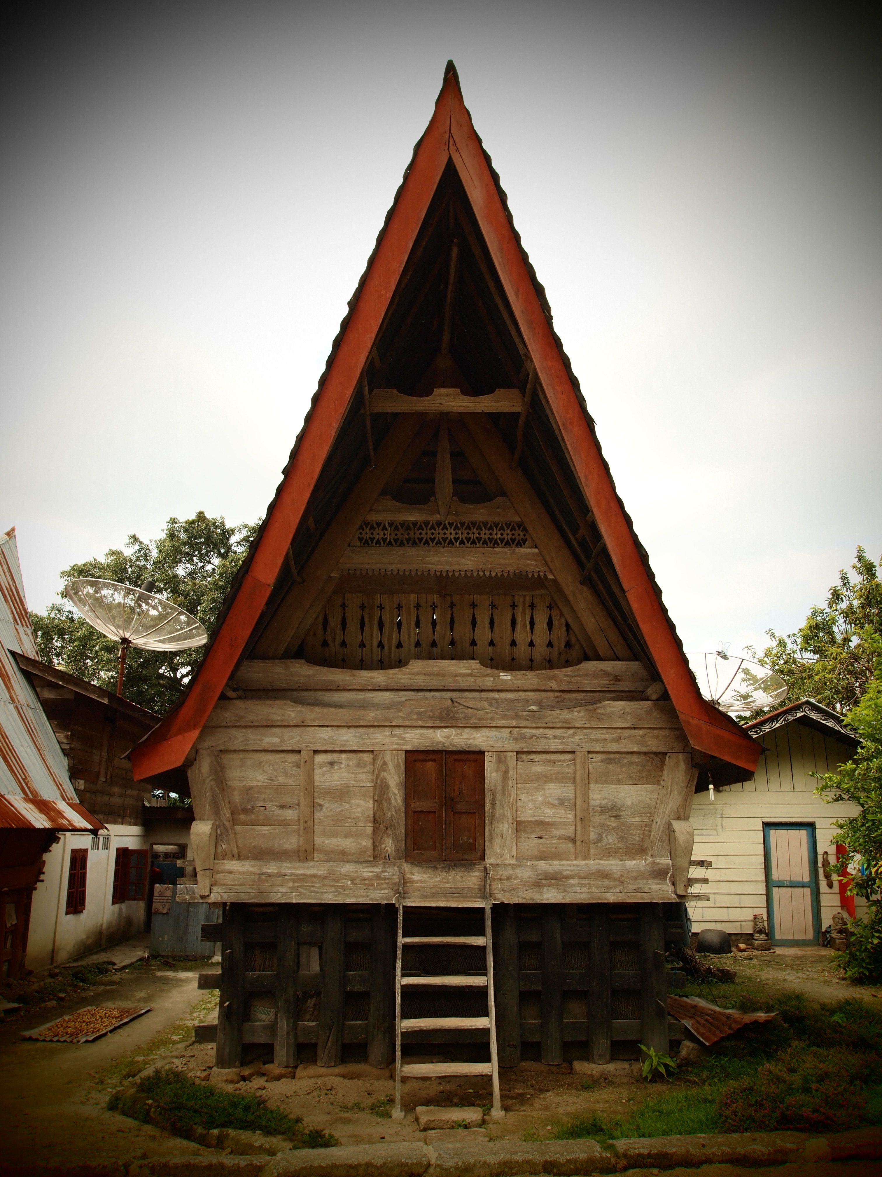 Example of a traditional Batak home at Ambarita, Samosir Island, Lake Toba.